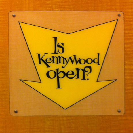 A sign in a restroom at Eat n Park at Pittsburgh Mills asking "Is Kennywood Open?" which is a phrase common in Western Pennsylvania referring to open zippers.